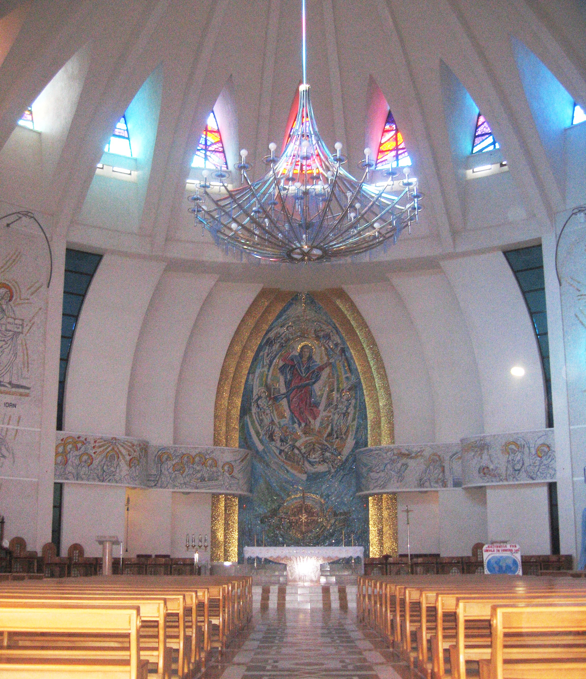 Catedrala Sfânta Maria Regină din Iaşi